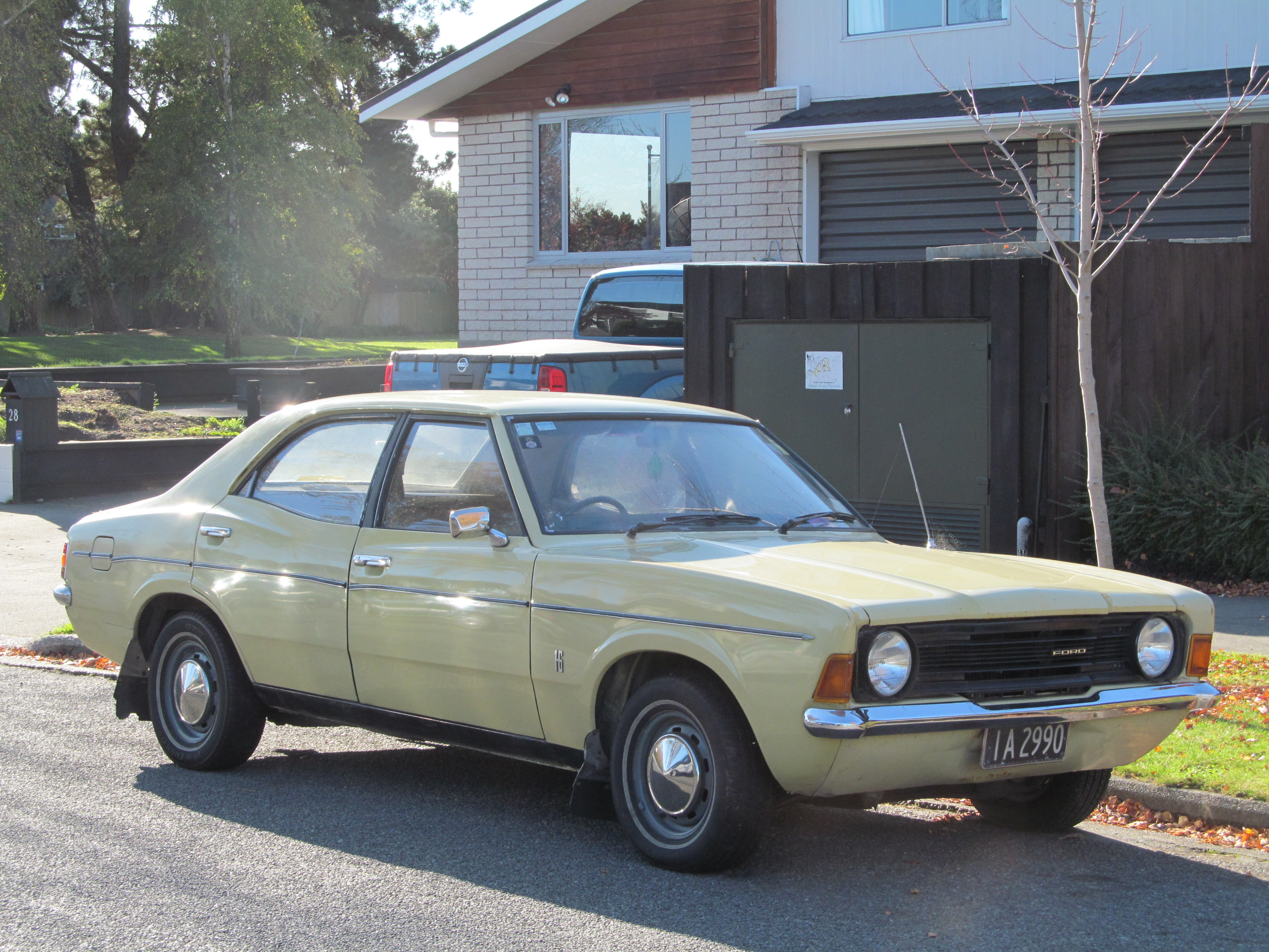 IA2990 This was a pleasing spot, as it's the only round headlight Mk3 I've seen in quite a while! At least it's not a 1.3 like the last round headlight one I saw...